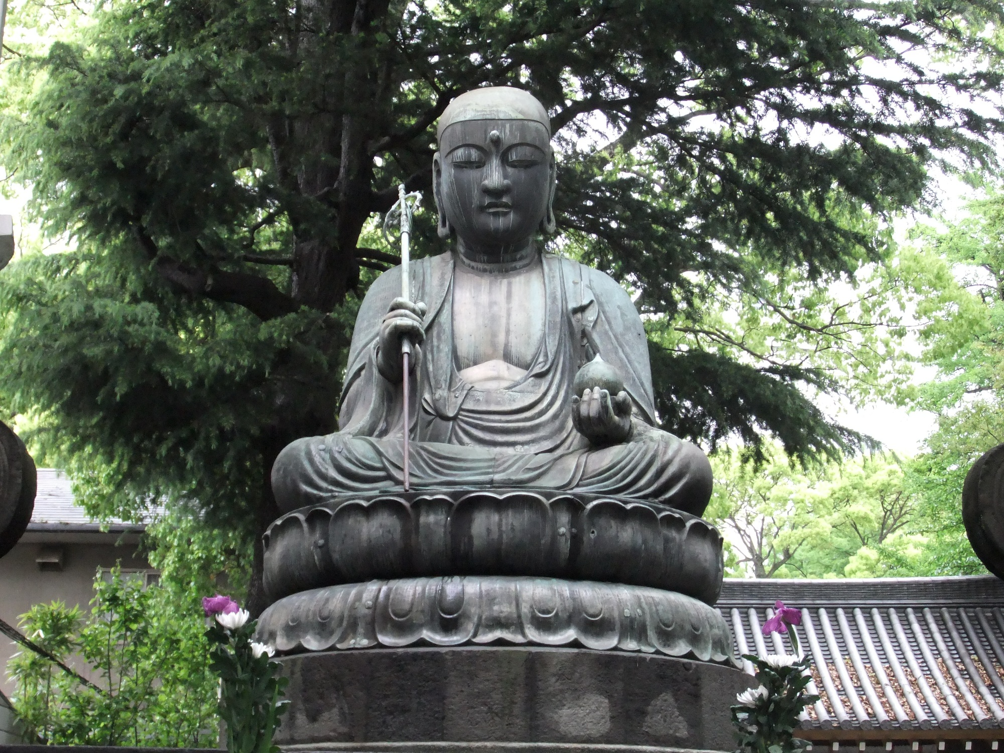 Jizo-Bosatsu (Kshitigarbha) at Honsen-ji temple in Shinagawa-ku, Tokyo.